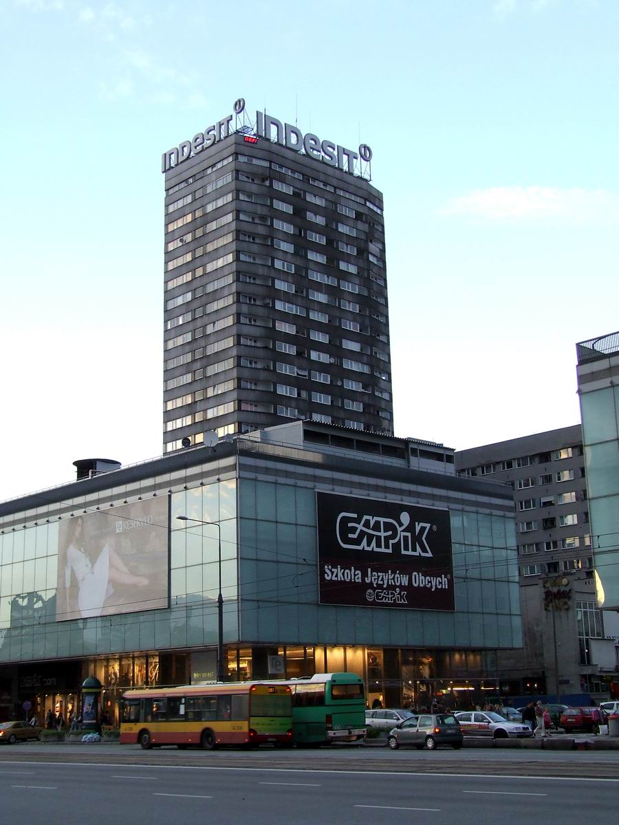 East Wall, Warsaw, Zgoda Street